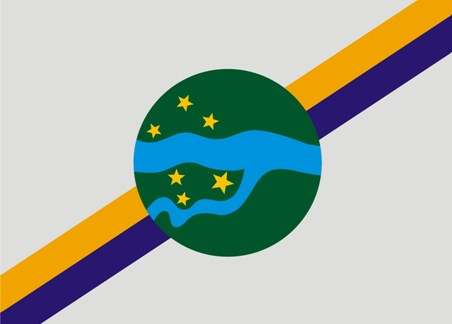 Flag of Montalvânia, a municipality of the Brazilian state of Minas Gerais